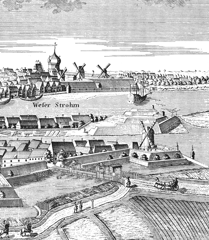 The fortifications of the city of Bremen around 1729. View from the Neustadt side over the Weser river towards the Ostertor.